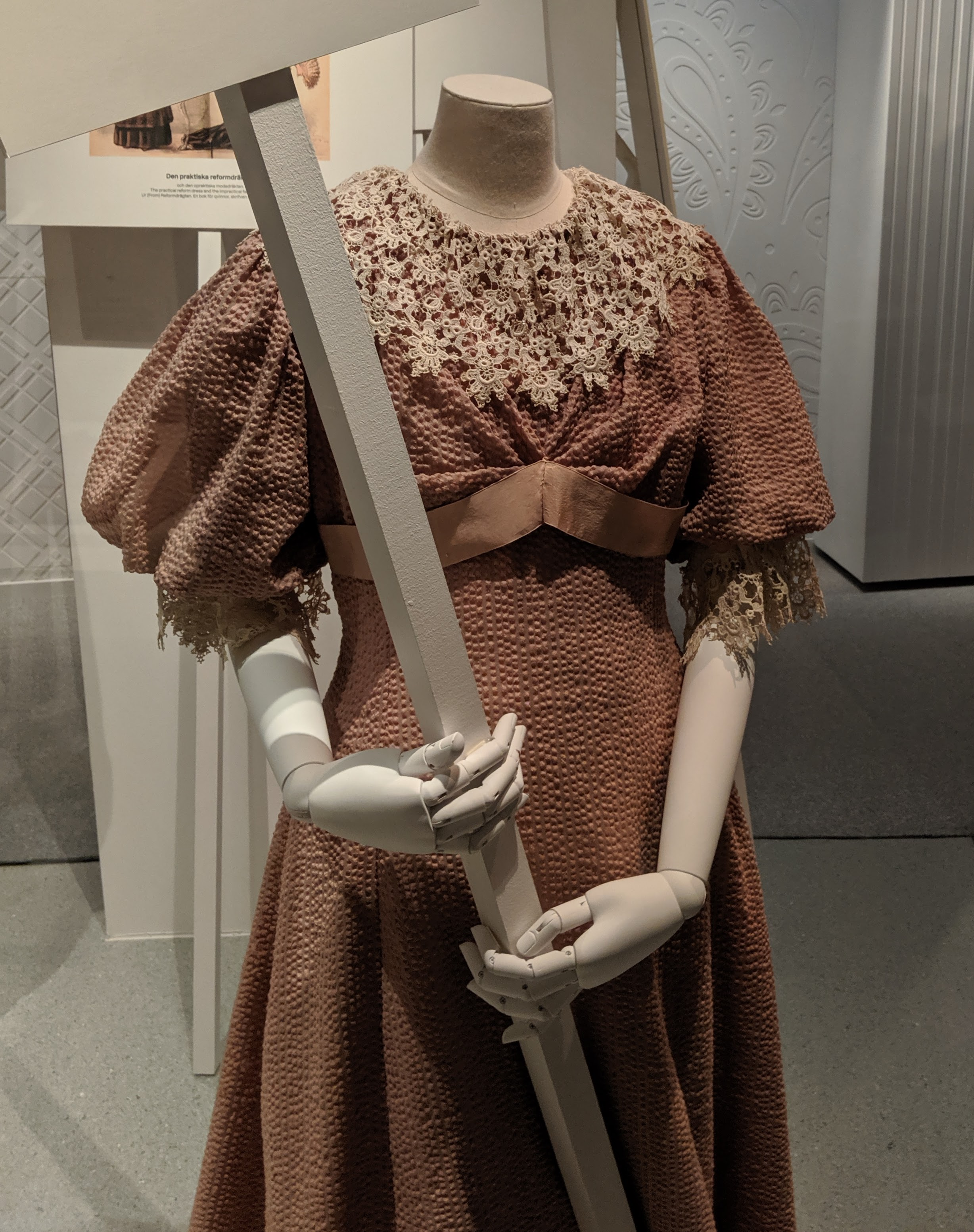 Kristine Dahl was a fashion designer and advocate for dress reform for women in Oslo in the 1890s. She designed this dress with Watteau pleats and Greek breast band for Swedish feminist Gurli Linder to be worn without a corset or bustle as part of a new aesthetic of freer, more healthy clothes.